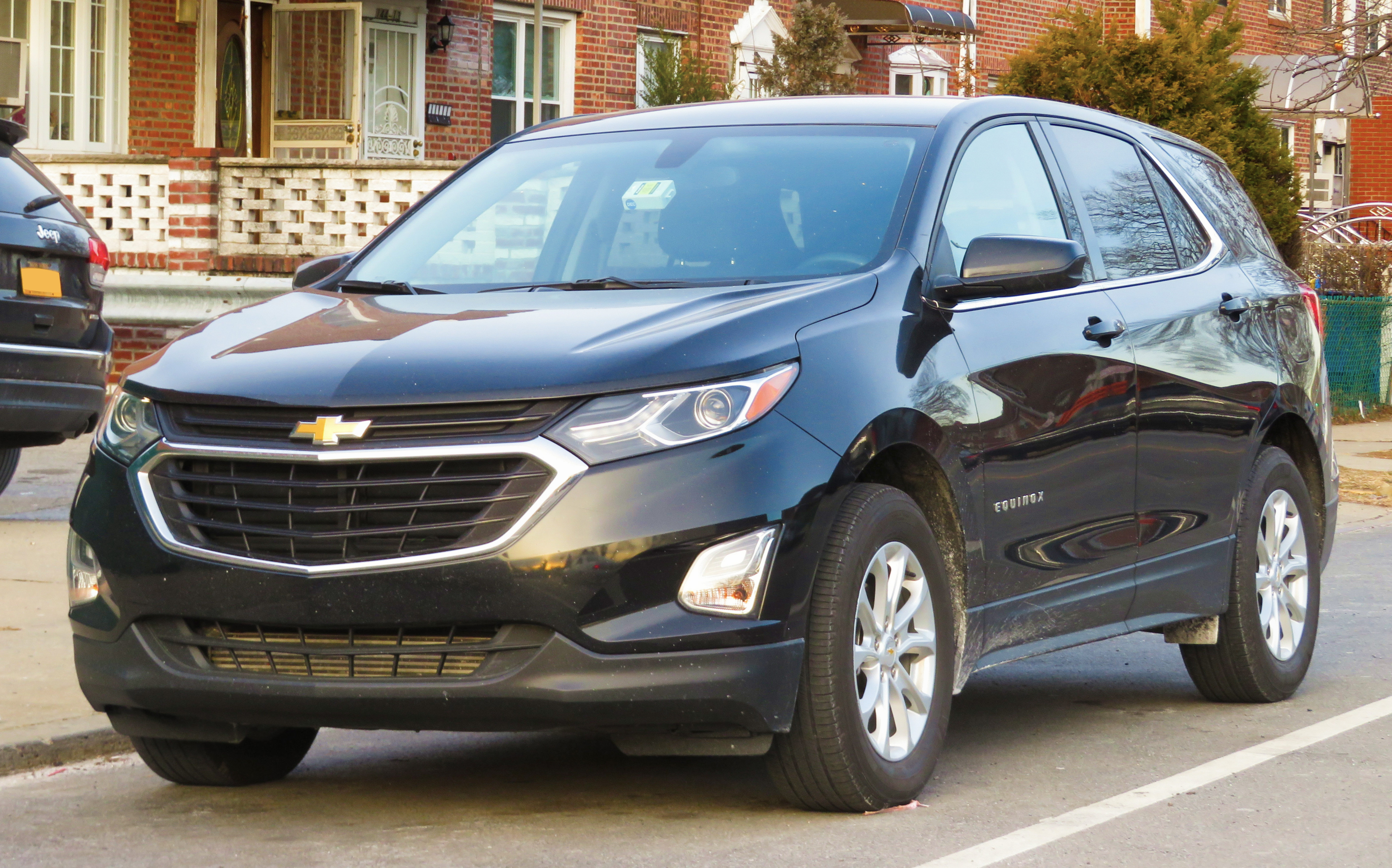 A 2018 Chevrolet Equinox photographed in Queens, New York, USA